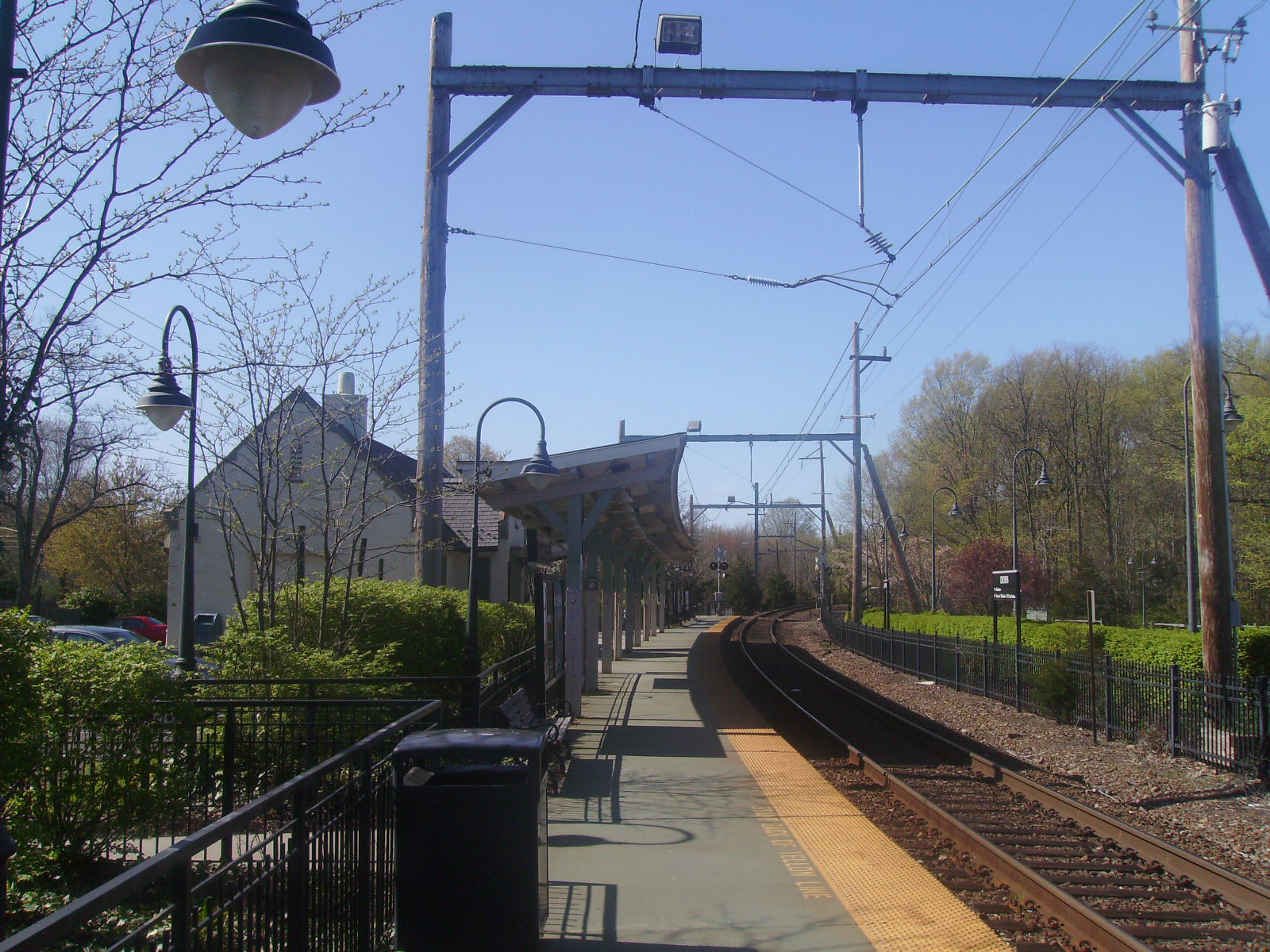 Facing westbound at the Lyons New Jersey Transit station in Lyons, New Jersey.